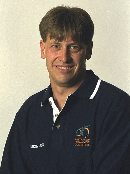 Portrait of Australian wheelchair basketballer David Gould, 2000 Australian Paralympic Team athlete